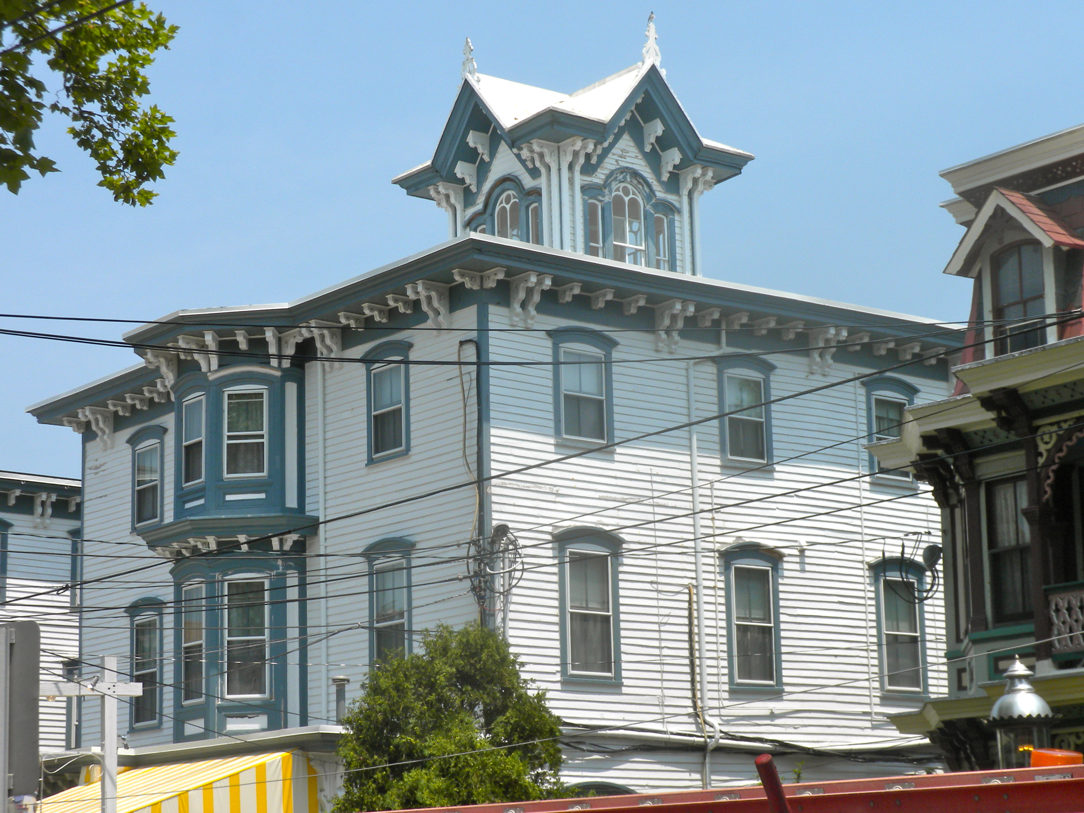 Carroll Villa, 19 Jackson St. , Cape May, New Jersey. IN the Cape May Historic District an NHL since 1976.